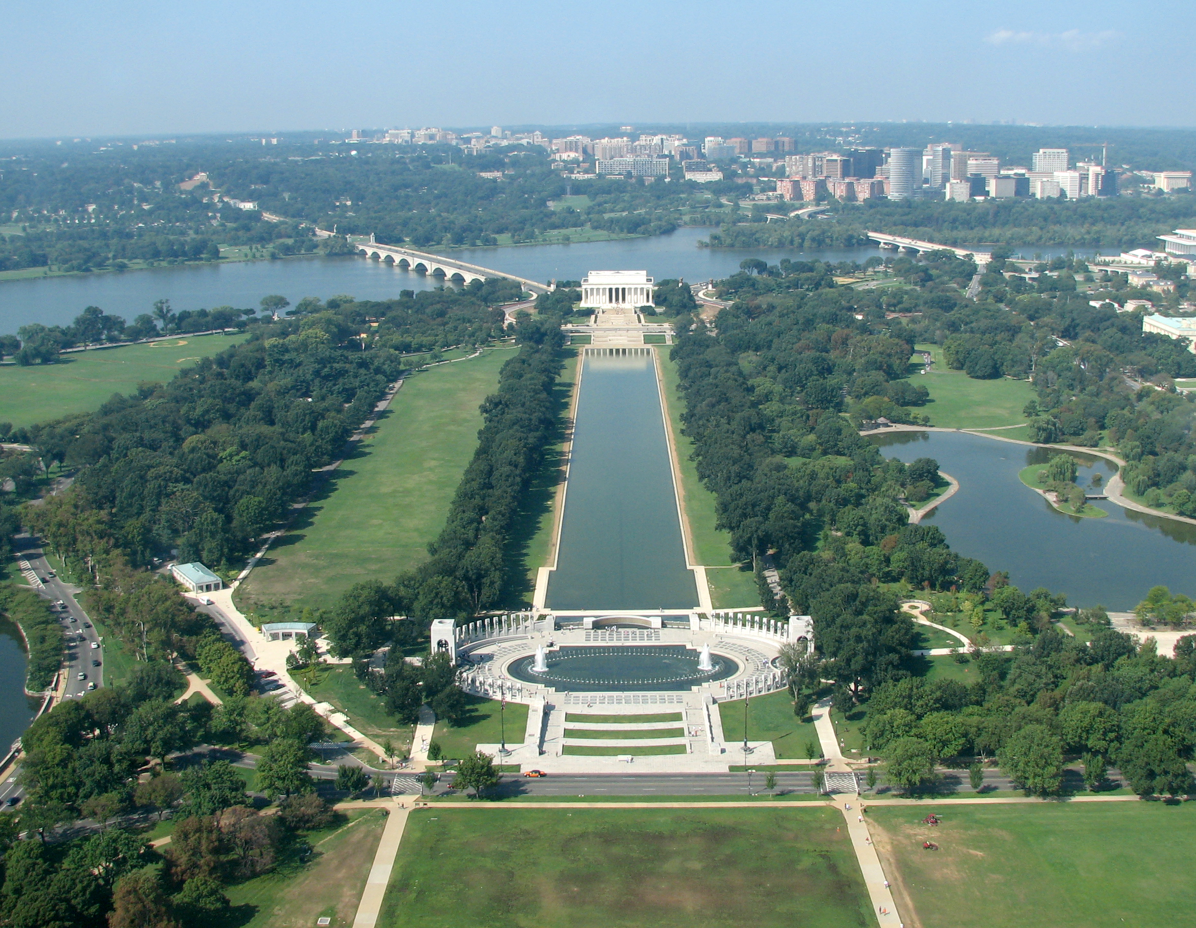 The Reflecting Pool from the Washington Monument